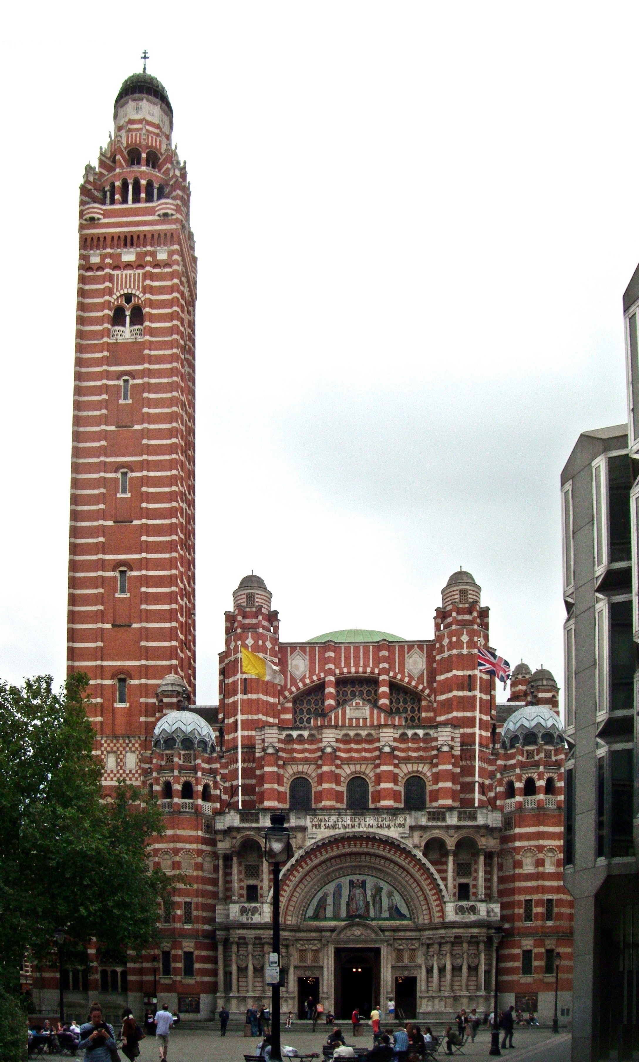 Westminster Cathedral, London